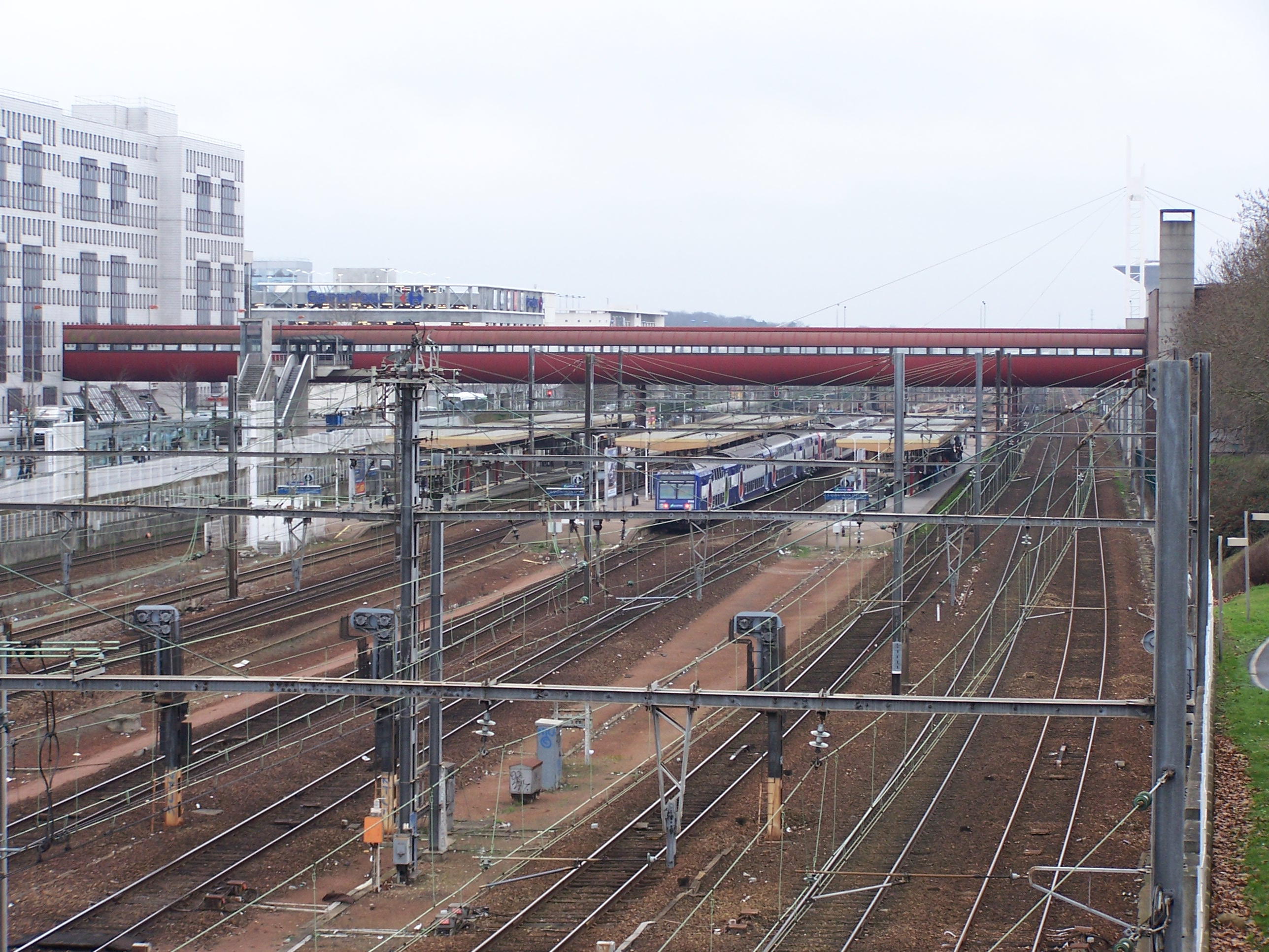 Railway station of Saint-Quentin-en-Yvelines in Montigny-le-Bretonneux (Yvelines, France)